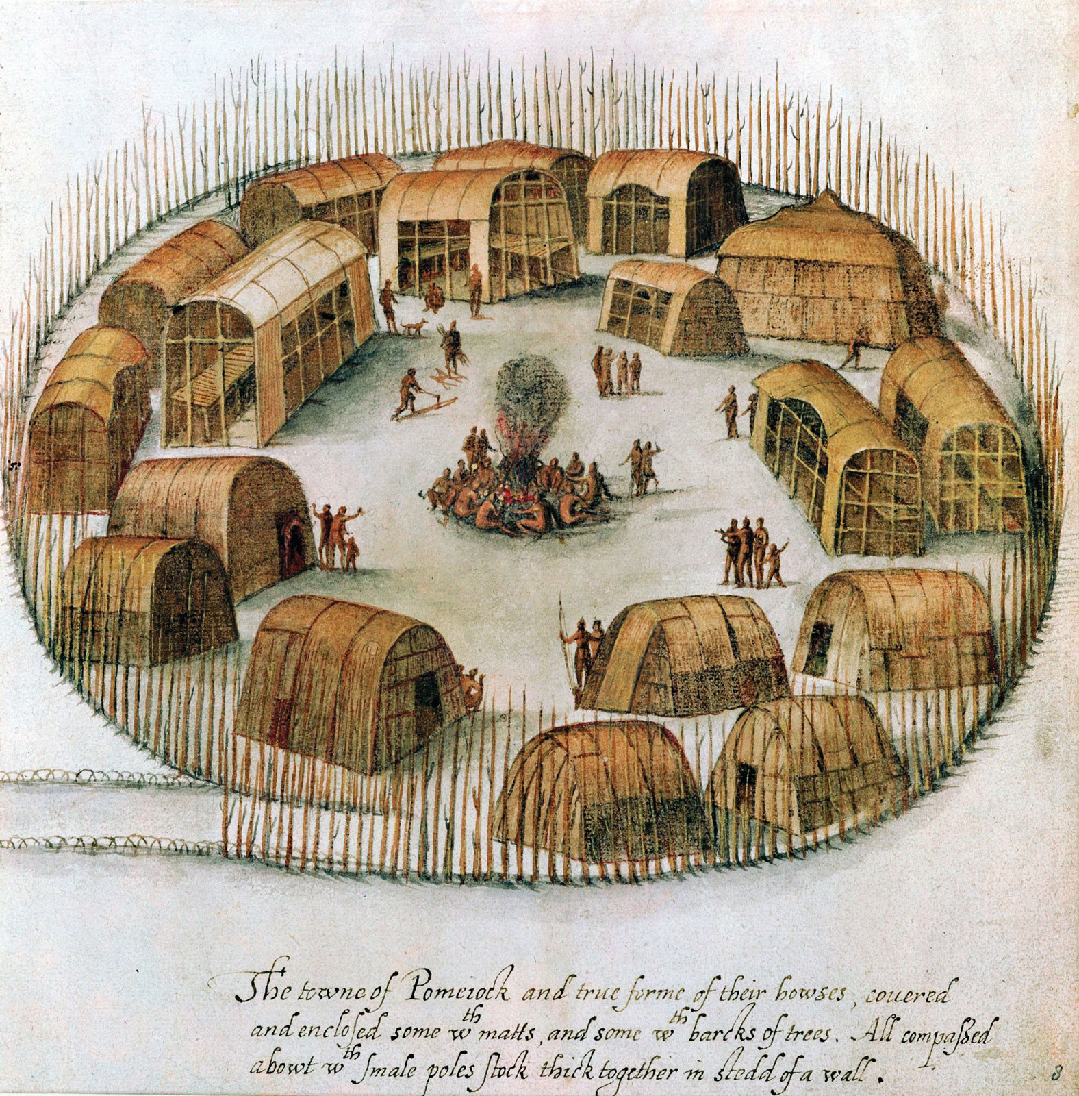 General notes: Artwork. Caption reads: "The towne of Pomeiock and true forme of their howses, covered and enclosed some with matts, and some with barcks of trees. All compassed abowt with smale poles stuck thick together in stedd of a wall."